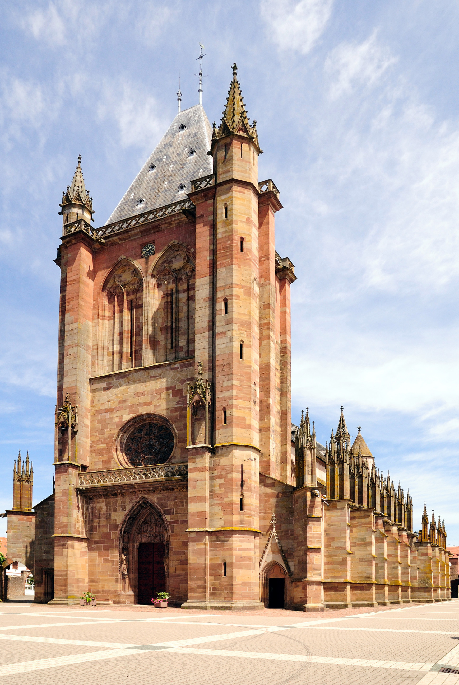 Church Niederhaslach, Alsace